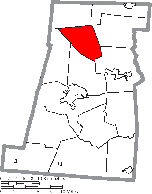 Map of the municipal and township boundaries of Madison County, Ohio, United States, as of the 2000 census, with the location of Monroe Township highlighted. Township borders are shown only in unincorporated areas in order to differentiate incorporated and unincorporated areas more clearly.